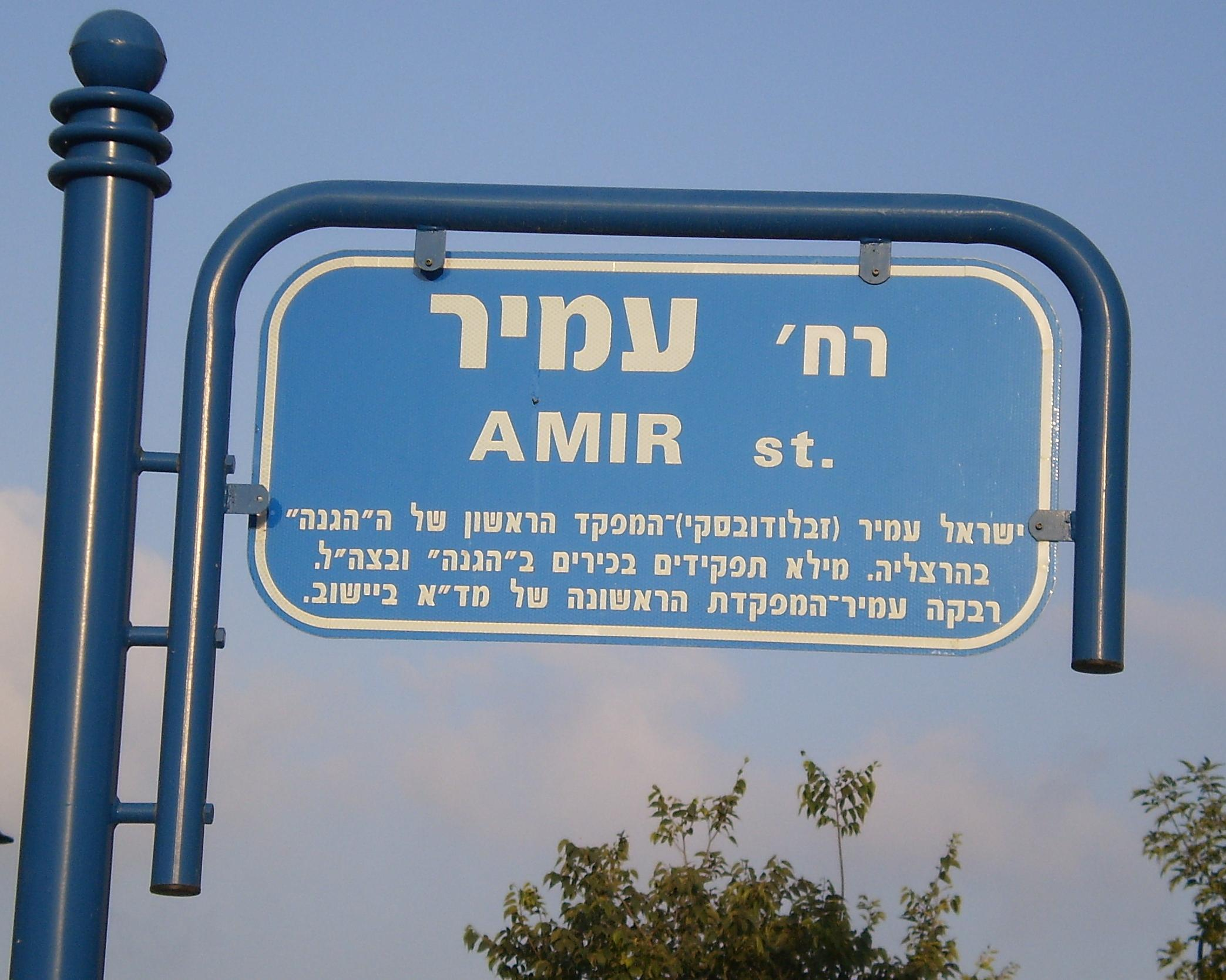 Amir street, Herzliya